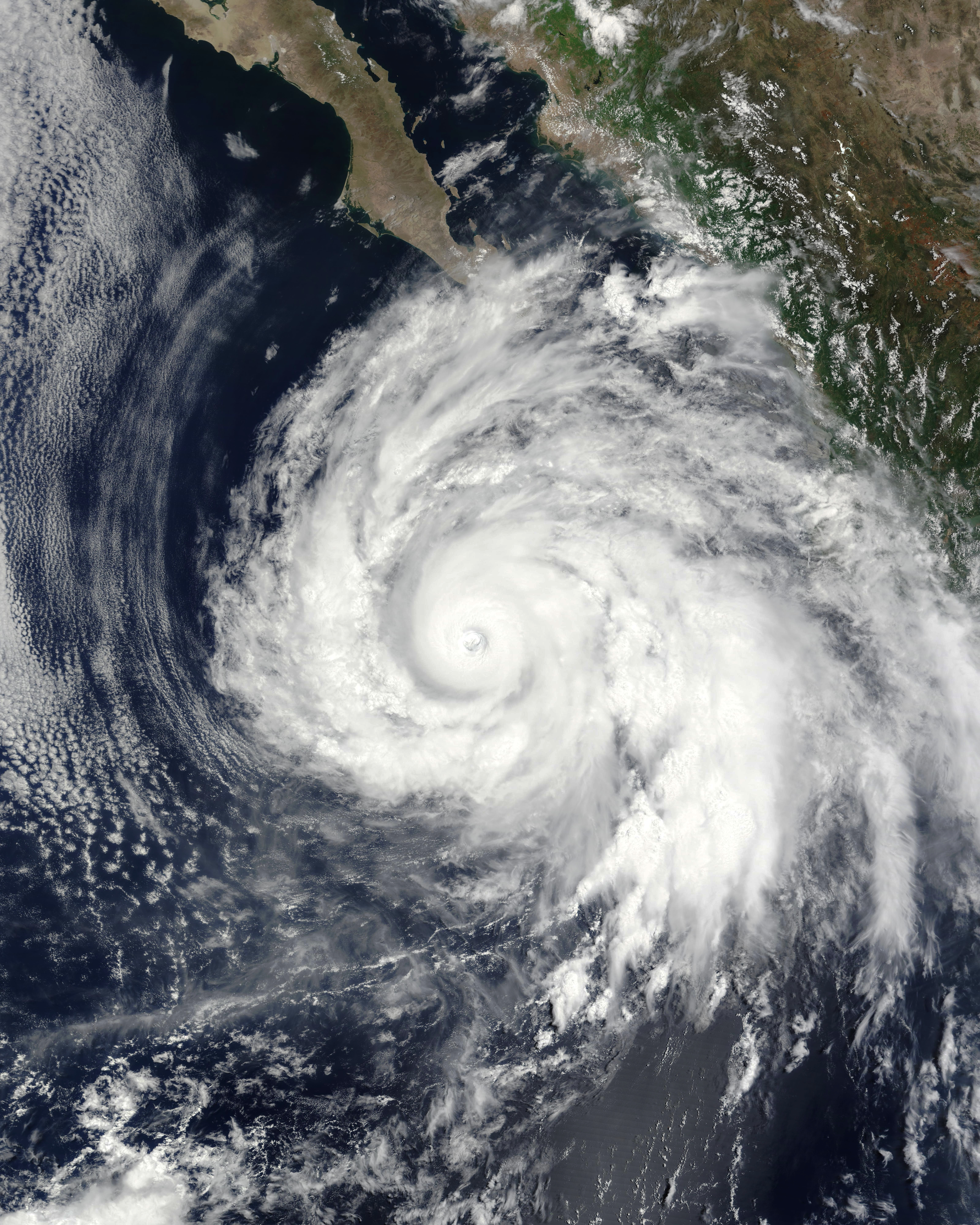 Hurricane Dolores on July 15, 2015 near its peak intensity.